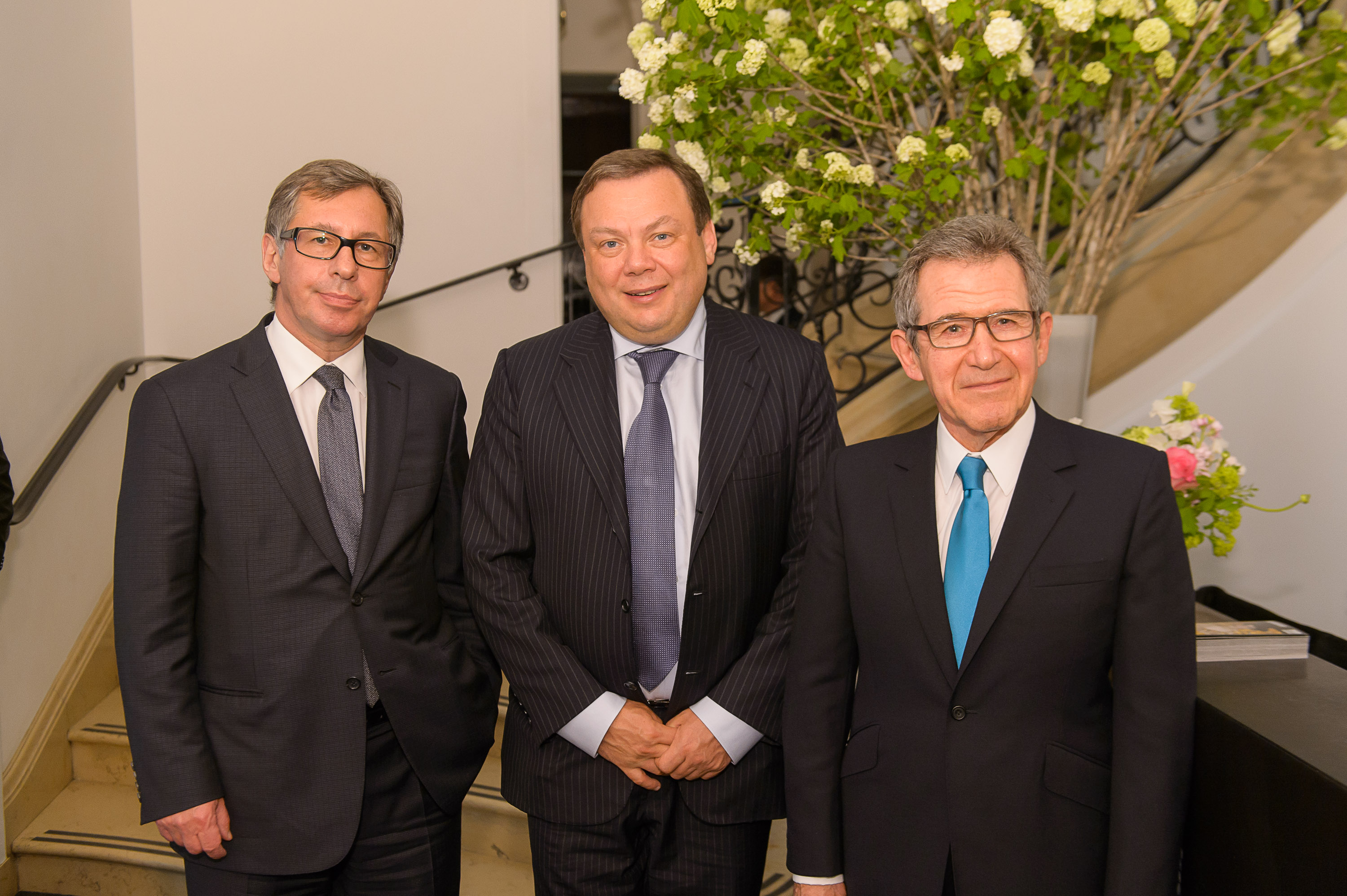 Mikhail Fridman, Petr Aven and Lord Browne at the L1 Energy launch New York - May 2015